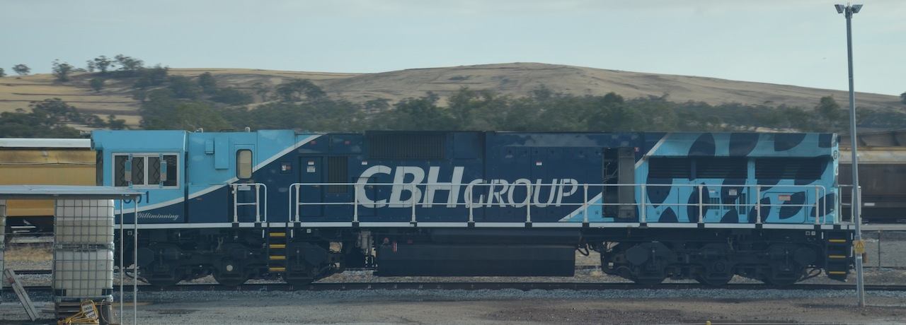 CBH Class 001 stationed at Avon Yard April 2014